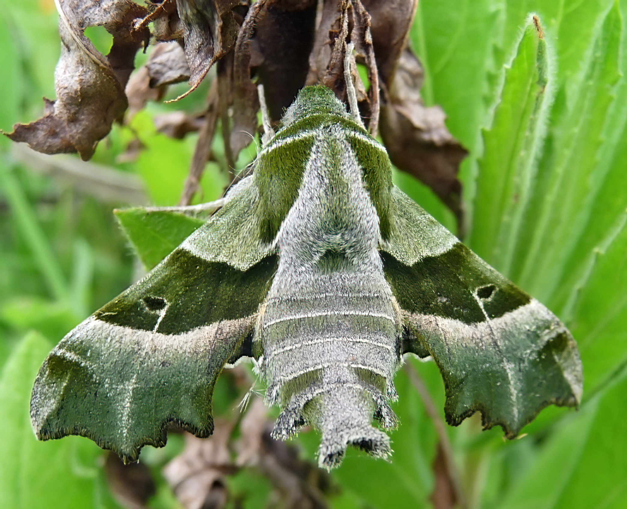 Willowherb Hawkmoth (Proserpinus proserpina), near Livorno, Tuscany, Italy